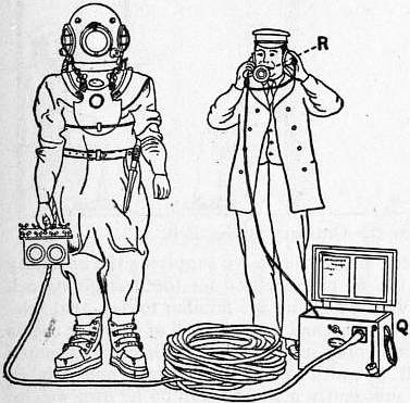 Diver’s Telephone Communication with the Surface. Q, Battery, with switch and bell in case. R, Attendant’s receiver and transmitter.